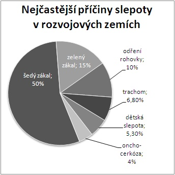 Causes of blindness in the least-developed countries, and in particular Sub-Saharan Africa